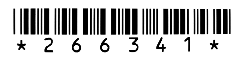 Bar code (code 39)